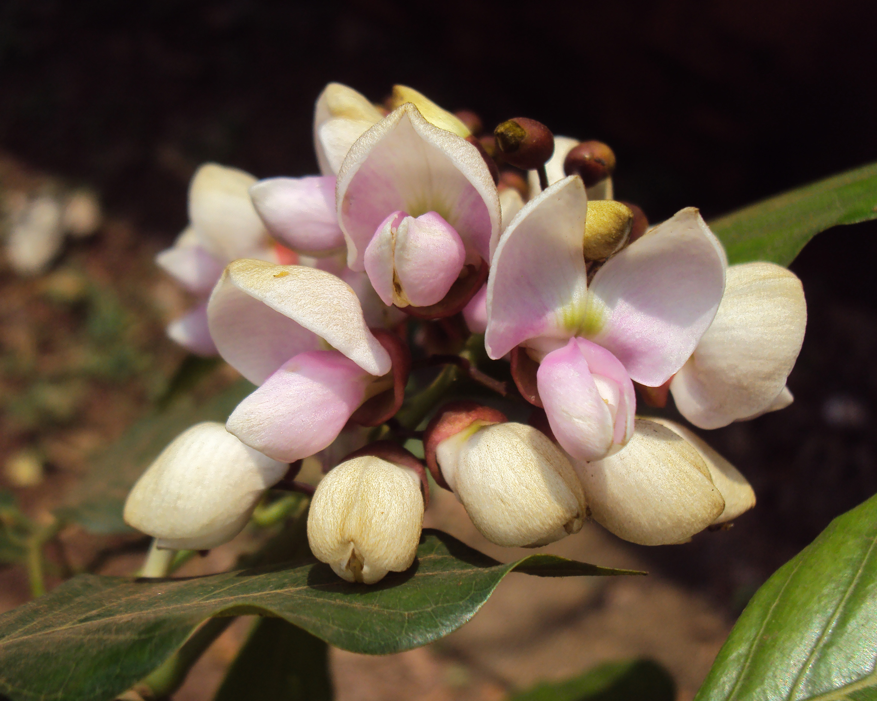 Millettia pinnata aka Pongamia pinnata